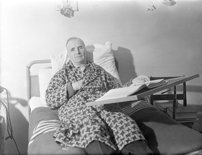 Minister of Education Antti Kukkonen, who had been to prison after Finland lost the war, was released on Kivelä hospital, where he had been due to a heart problem. He returned to the parliament.